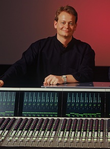 Myron Nettinga PR photo